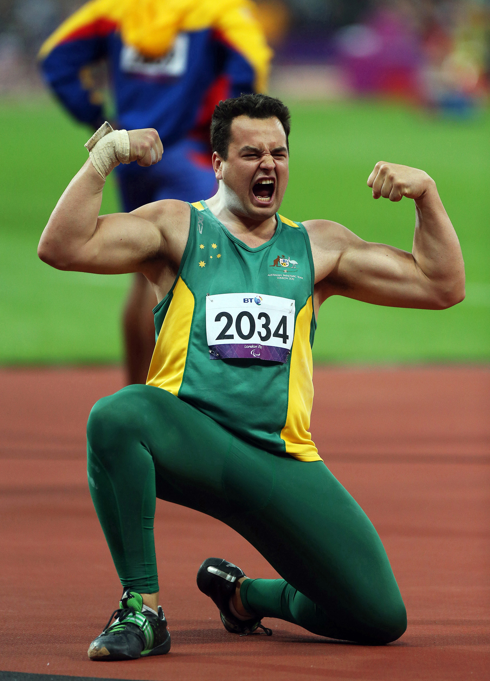 Photograph of Australian Paralympic team member Todd Hodgetts at the 2012 Summer Paralympic Games in London